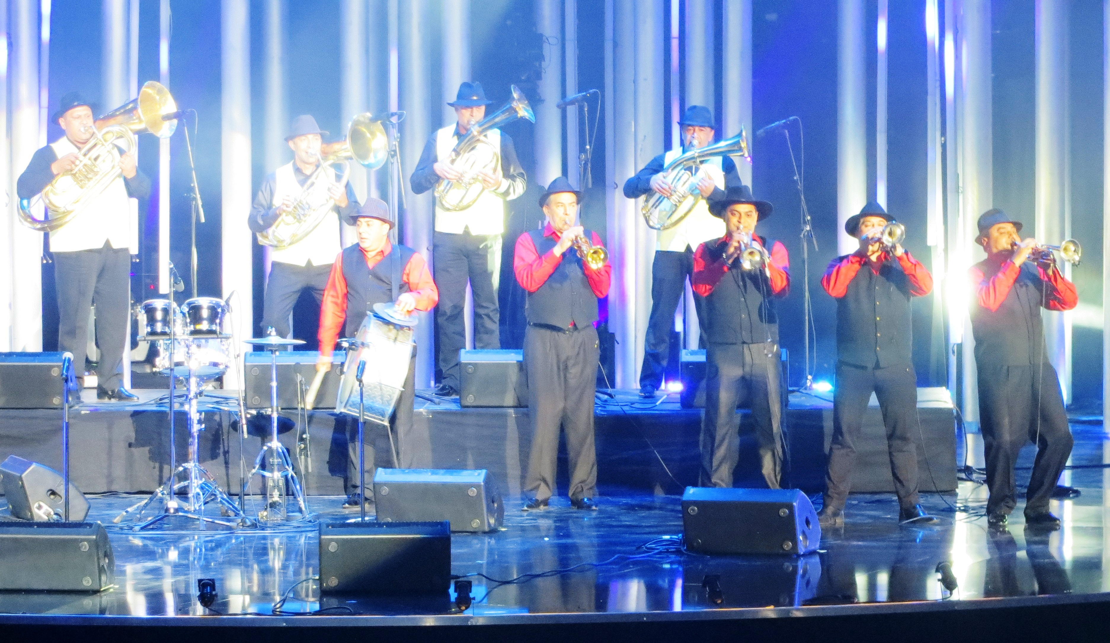 Photo of this famous Roumanian band, at the Nobel Peace Concert 2012 in Oslo, Norway